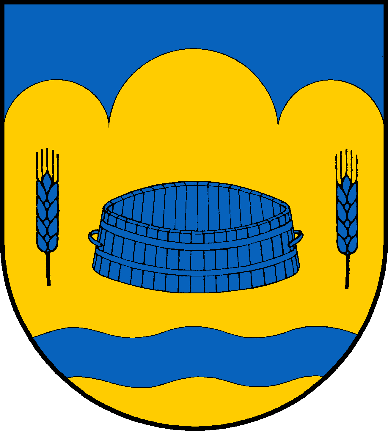 Coat of arms of the municipality Ascheffel in Schleswig-Holstein, Germany.